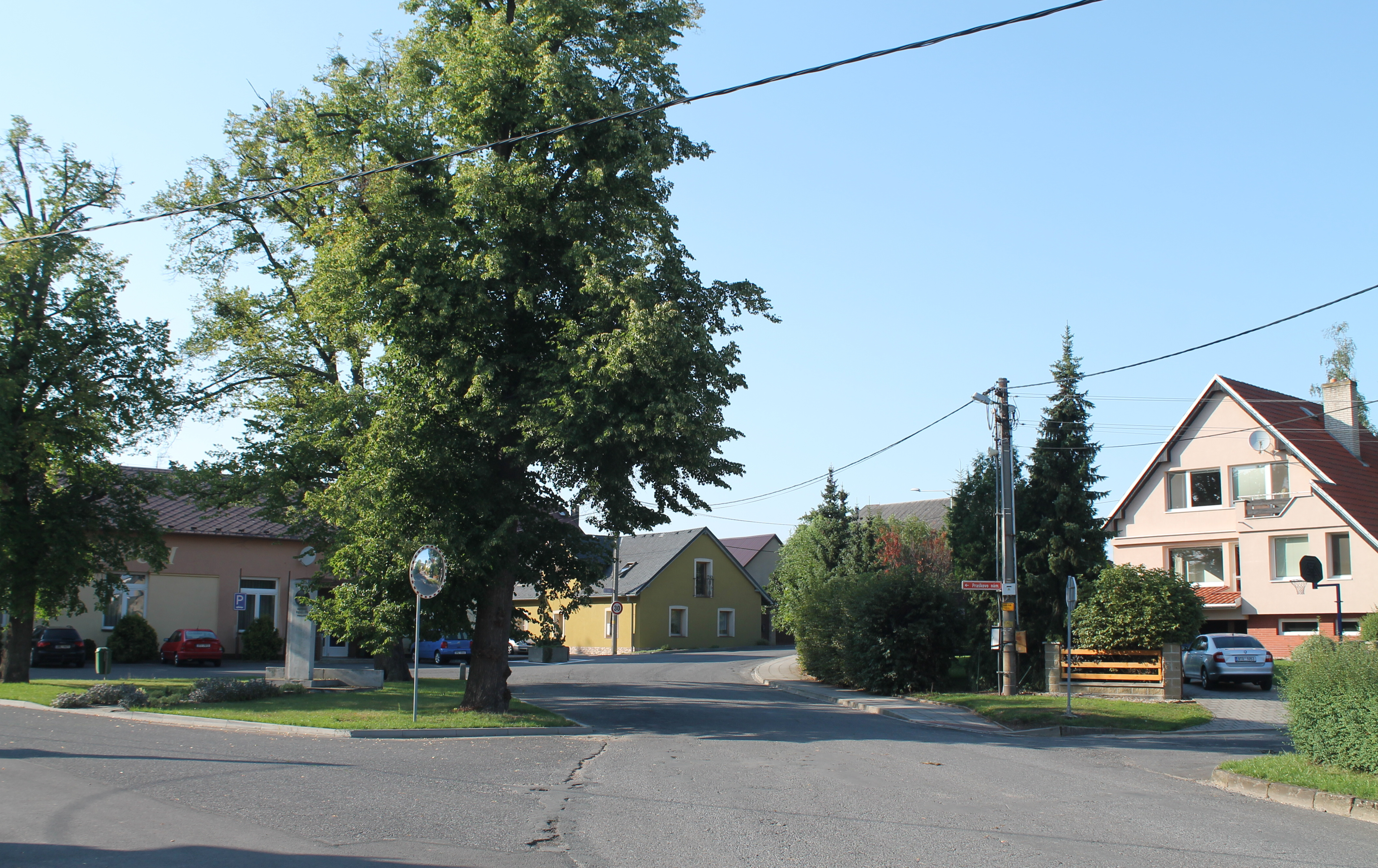 Milostovice, Opava, Opava District, Czech Republic